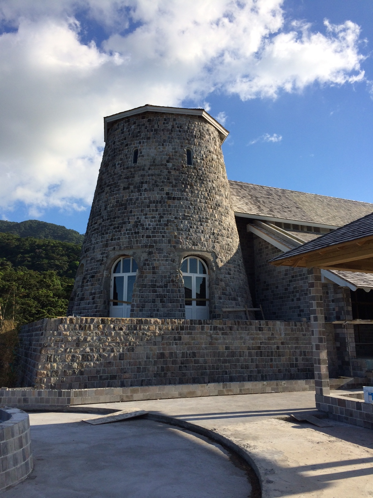 St Kitts' farm